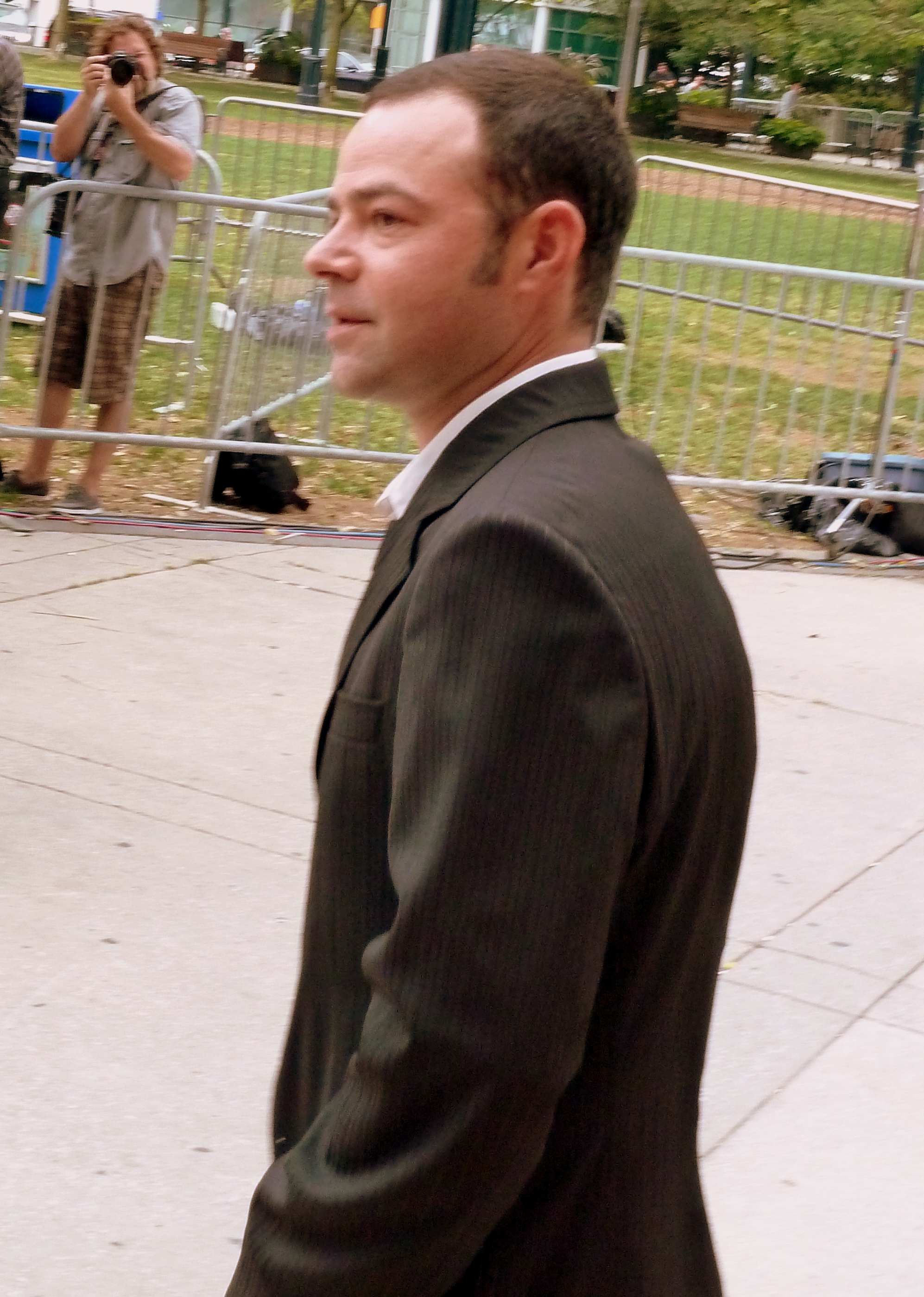 Rory Cochrane at the premiere of Argo, Toronto Film Festival 2012